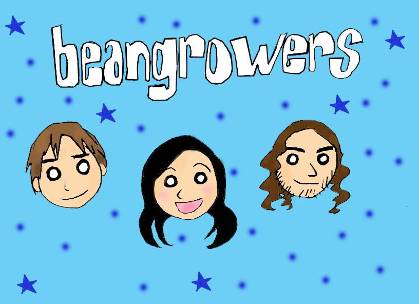 Beangrowers fan art used with permission. Copyright is retained, but have been given permission to use it on wikipedia in perpeturity.